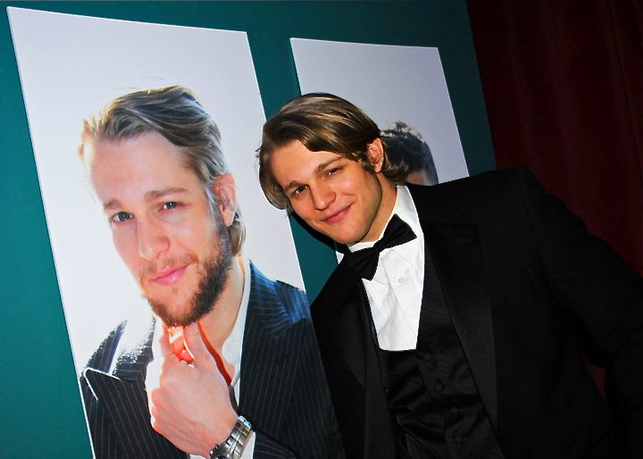 Coleman posing for an In Between Men party. Photo taken by Melissa June Daniels.